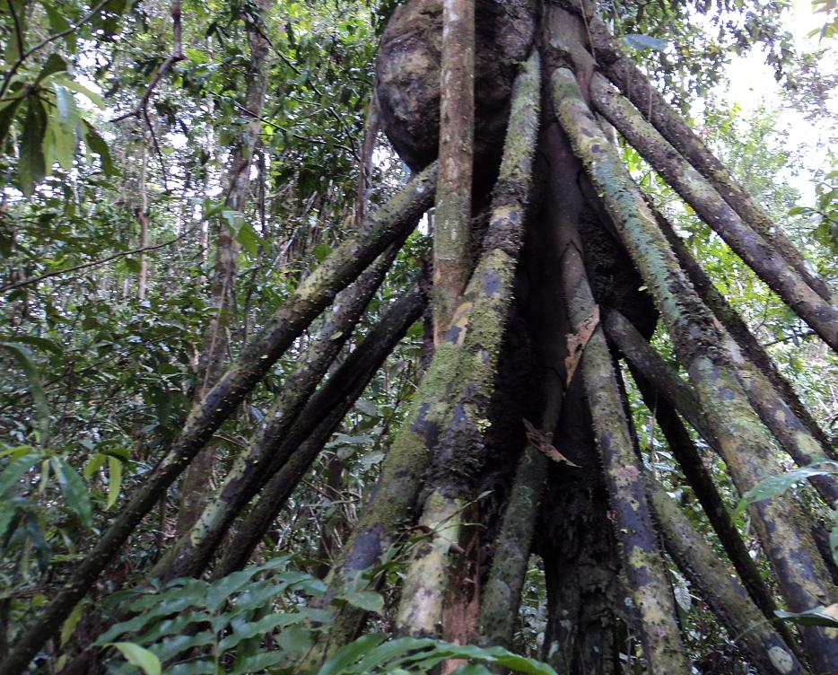 Primary Growth Forest